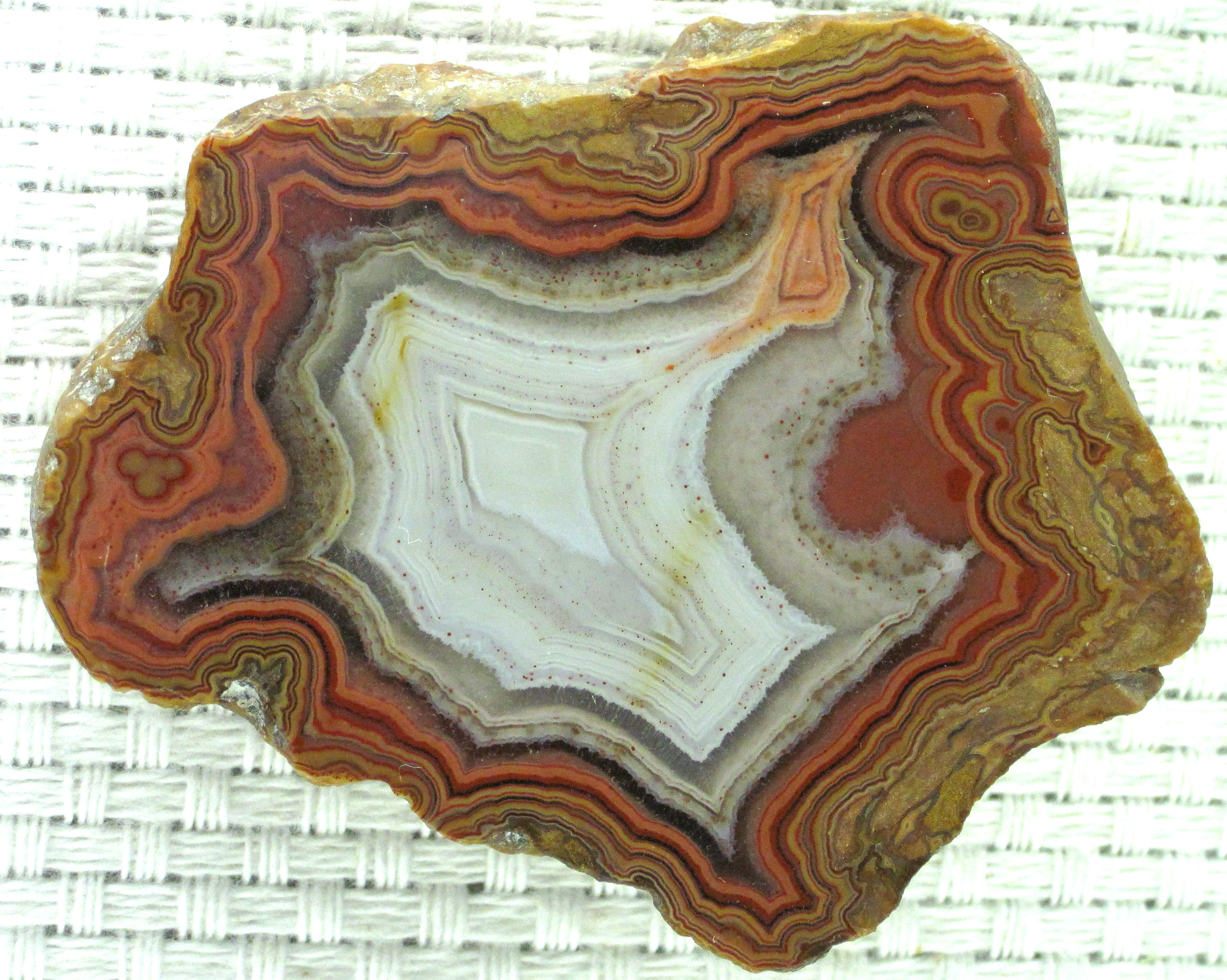 Agate ("Fairburn Agate") from the Black Hills of western South Dakota, USA. (public display, South Dakota School of Mines Museum of Geology, Rapid City, South Dakota, USA) "Agate" is a rockhound/collector term for cavities in rocks (usually sedimentary rocks such as limestone or igneous rocks such as basalt) that have been partially or completely filled with irregularly concentric layers of microcrystalline, fibrous quartz (chalcedony - SiO2). Agate is quartz. Attractive, multicolored and multipatterned agate has long been collected from a large area near the towns of Fairburn and Interior and south of the town of Kadoka and in the White River Badlands. This region has surficial, loose, late Cenozoic-aged gravels derived from weathering and erosion of bedrock in the Black Hills. Some of this gravel is agate. The Fairburn-area agates are remarkably colorful and desirable. The highest-quality examples have sold in the past for between 10,000 and 20,000 American dollars. Studies have shown that Fairburn Agate is ultimately derived from limestones of the Minnelusa Formation (Upper Pennsylvanian to Lower Permian), which outcrops in the nearby Black Hills.